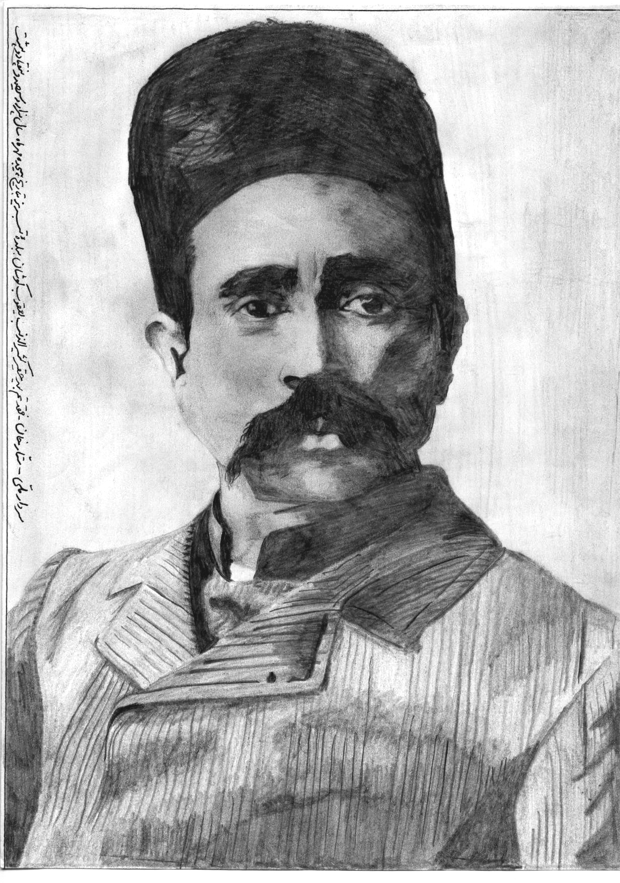 Portrait drawing of Sattar Khan